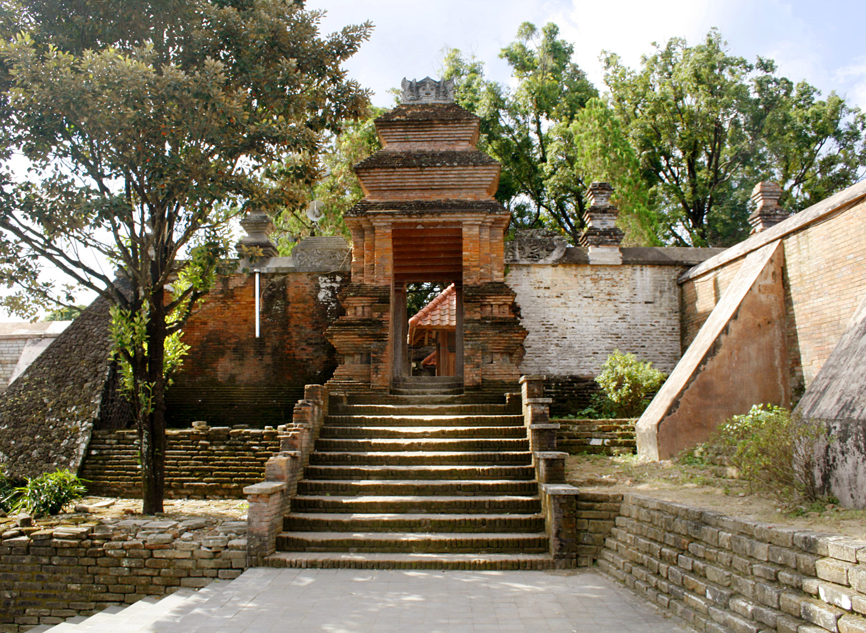 One of the gates of Kota Gede, the former capital of Mataram Sultanate, Yogyakarta. The complex includes mosque, pool and bathing place, and Mataram royal cemetery.